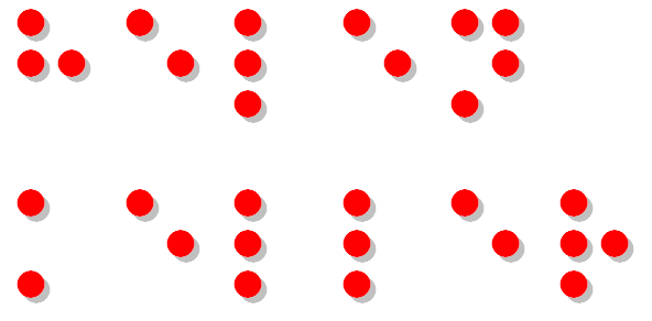 "Helen Keller" in braille